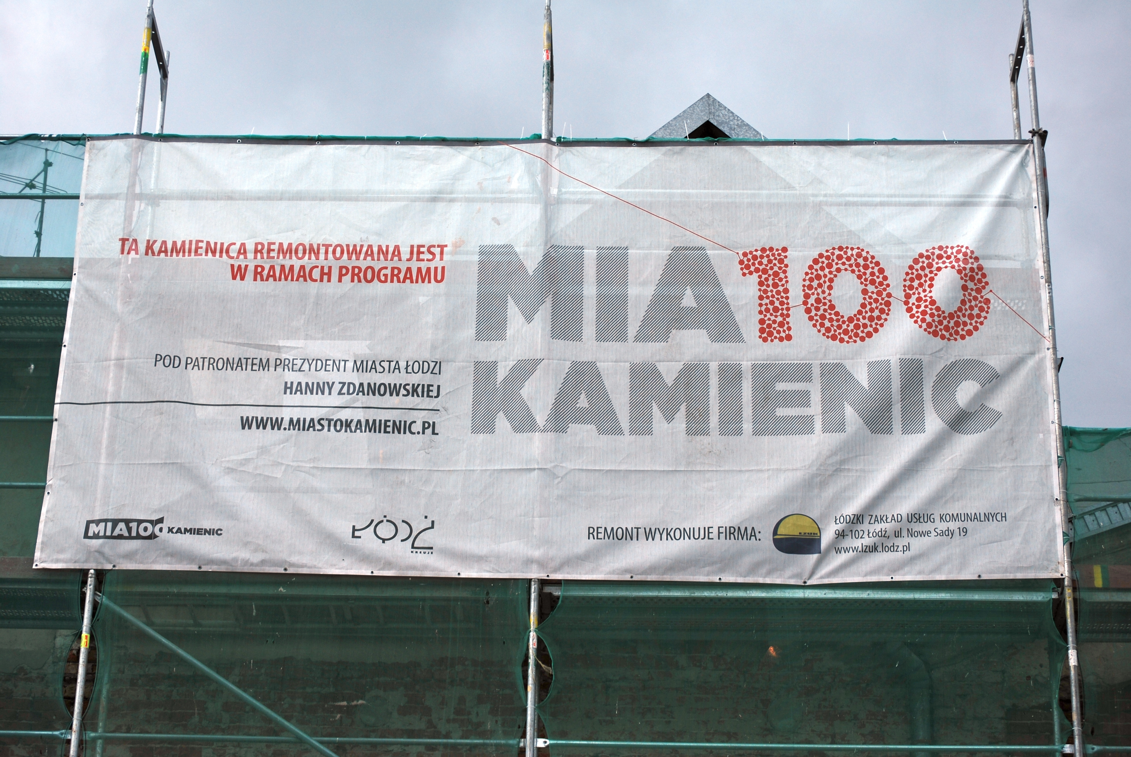 Mia100 Kamienic (City of Houses), Łódź